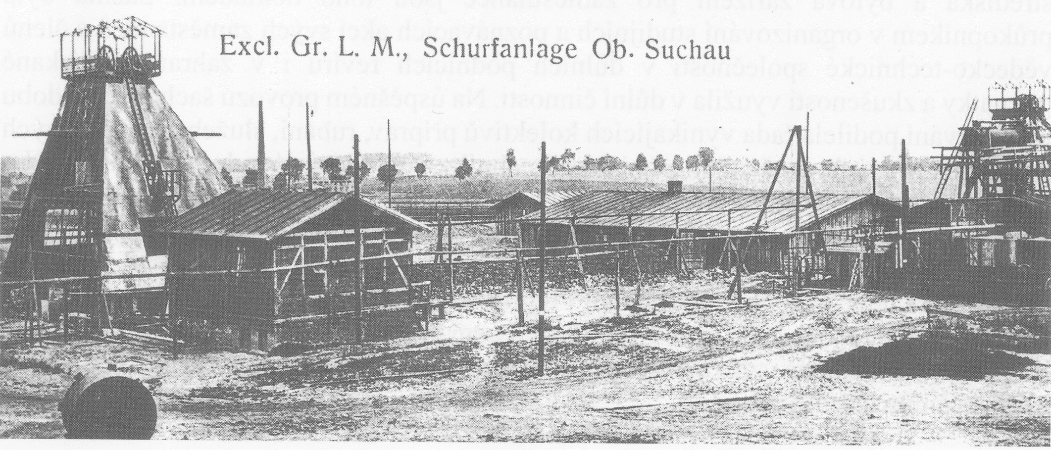 Colliery Frantisek in Horni Sucha (Czech Republic) between 1909 - 1911. The process of construction is pictured